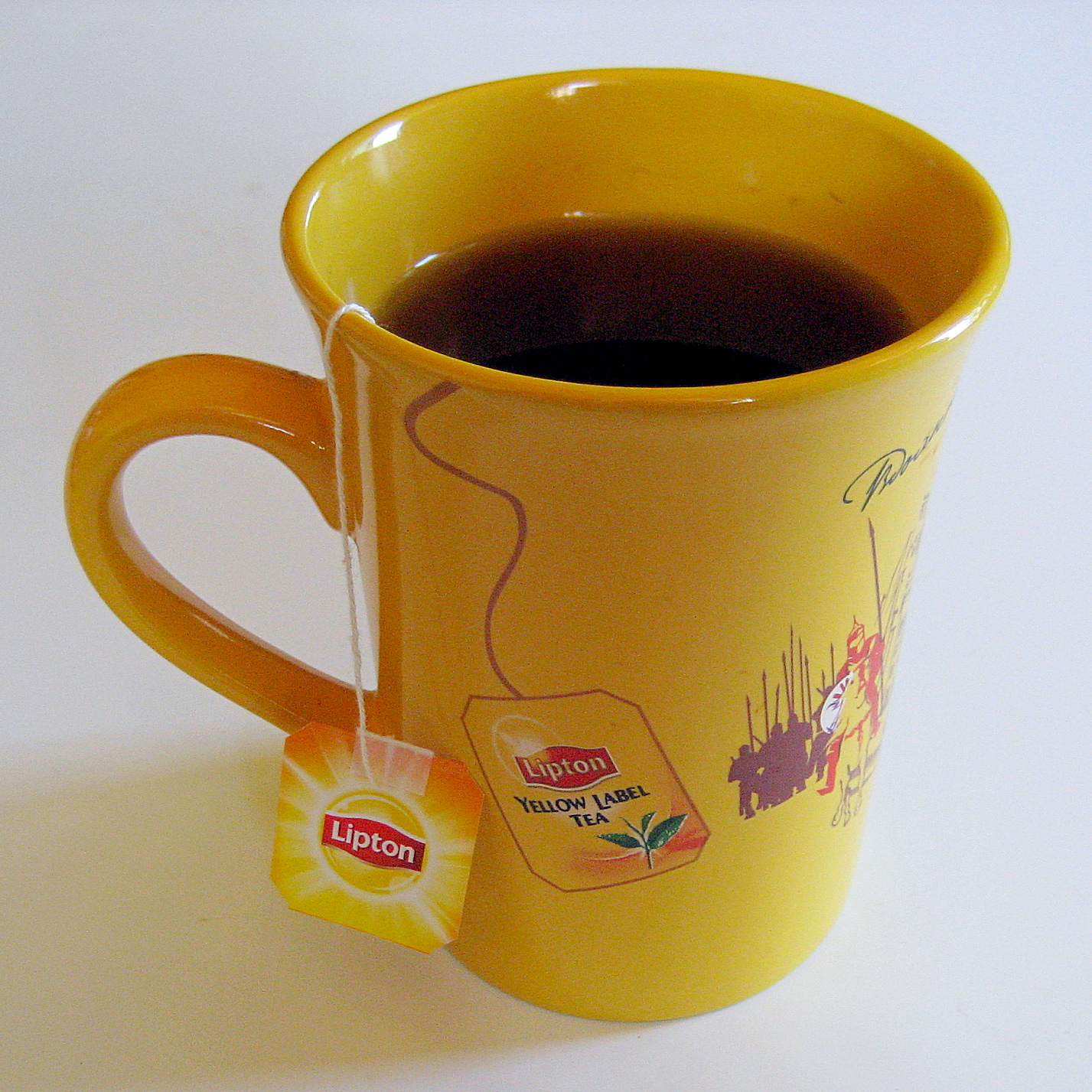 Lipton is a British brand of tea, owned by Unilever. Lipton was also a supermarket chain in the United Kingdom before it was sold off to Argyll Foods, to allow the company to focus solely on tea. The company is named after its founder Thomas Lipton. The Lipton ready-to-drink beverages are sold by Pepsi Lipton International, a company jointly owned by Unilever and PepsiCo, the owners of the namesake product Pepsi.